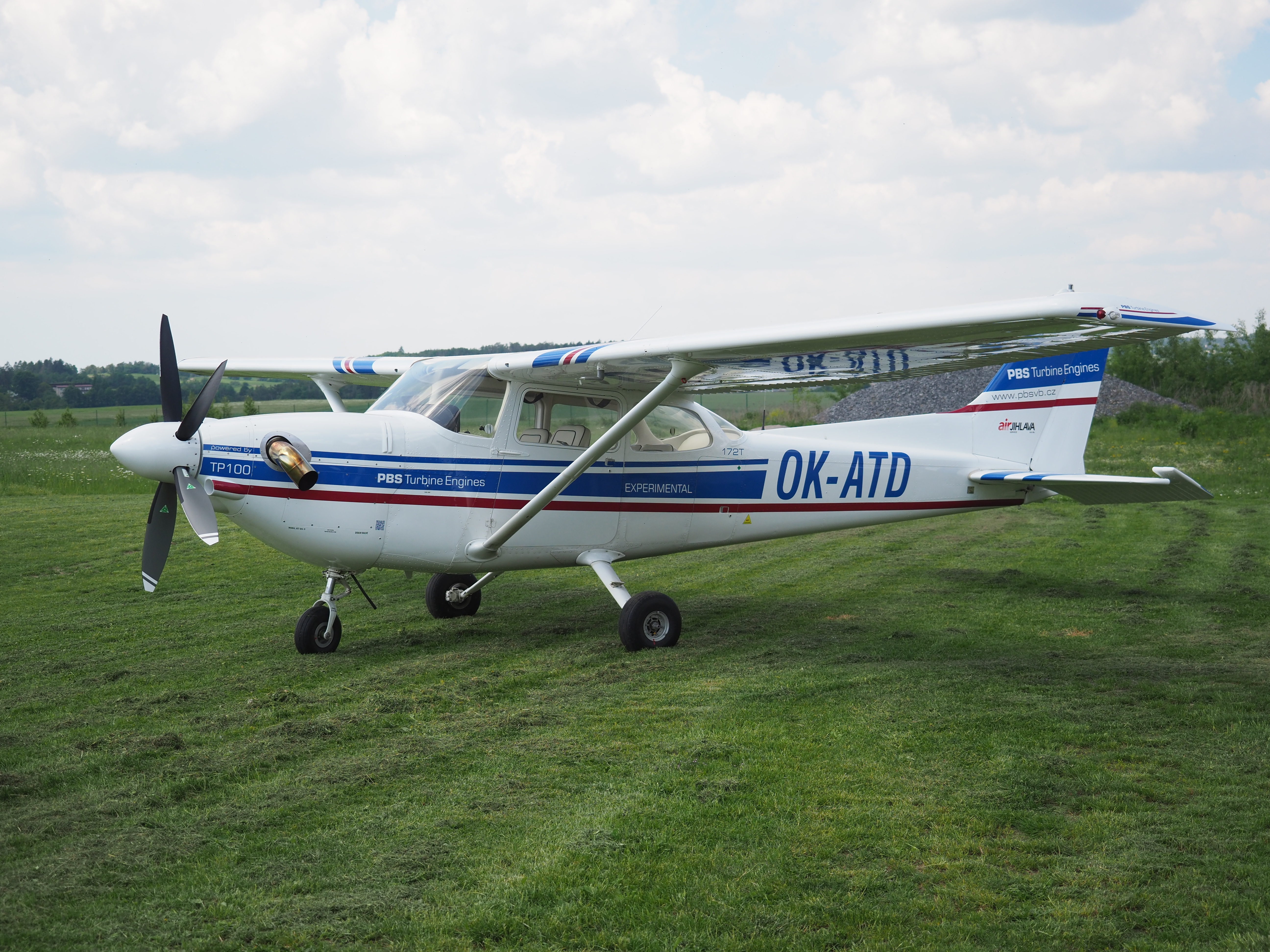 Cessna 172T powered by the PBS TP100 turboprop engine